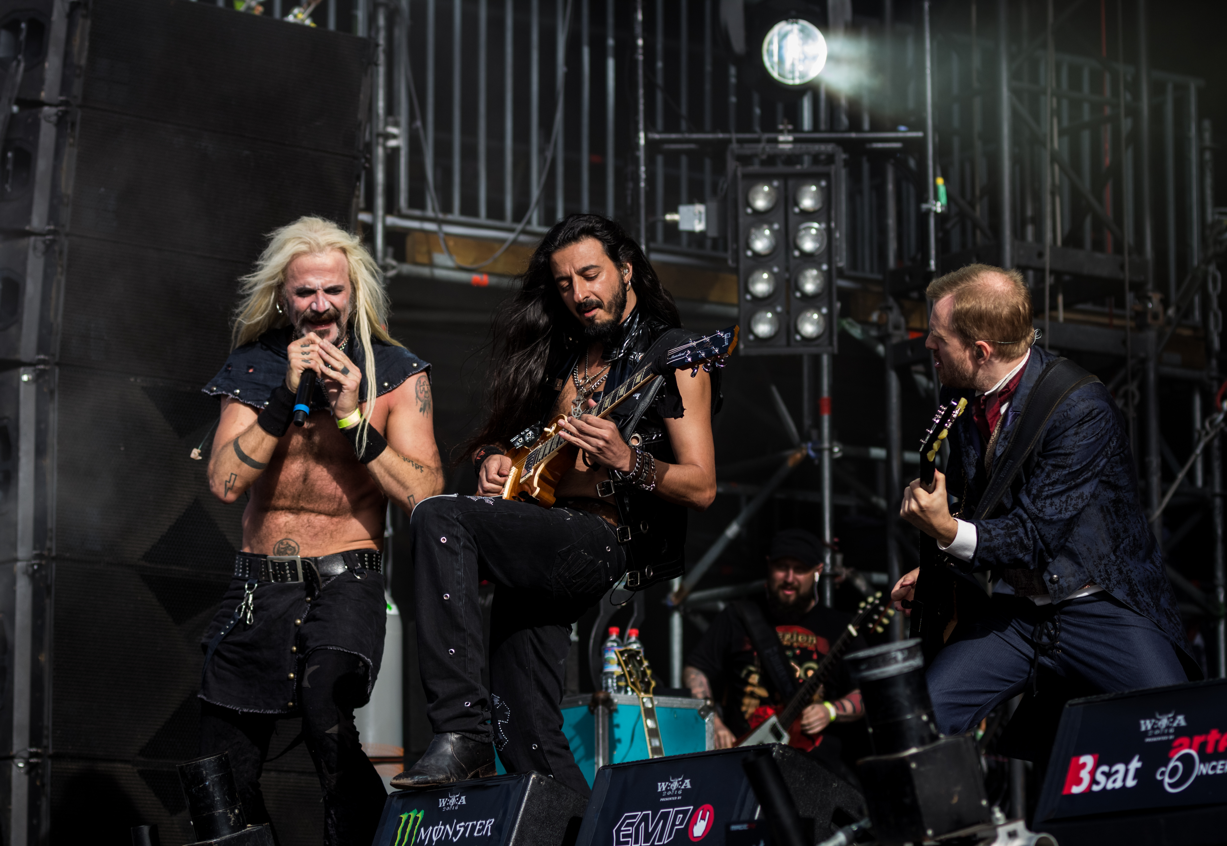 Therion - Wacken Open Air 2016